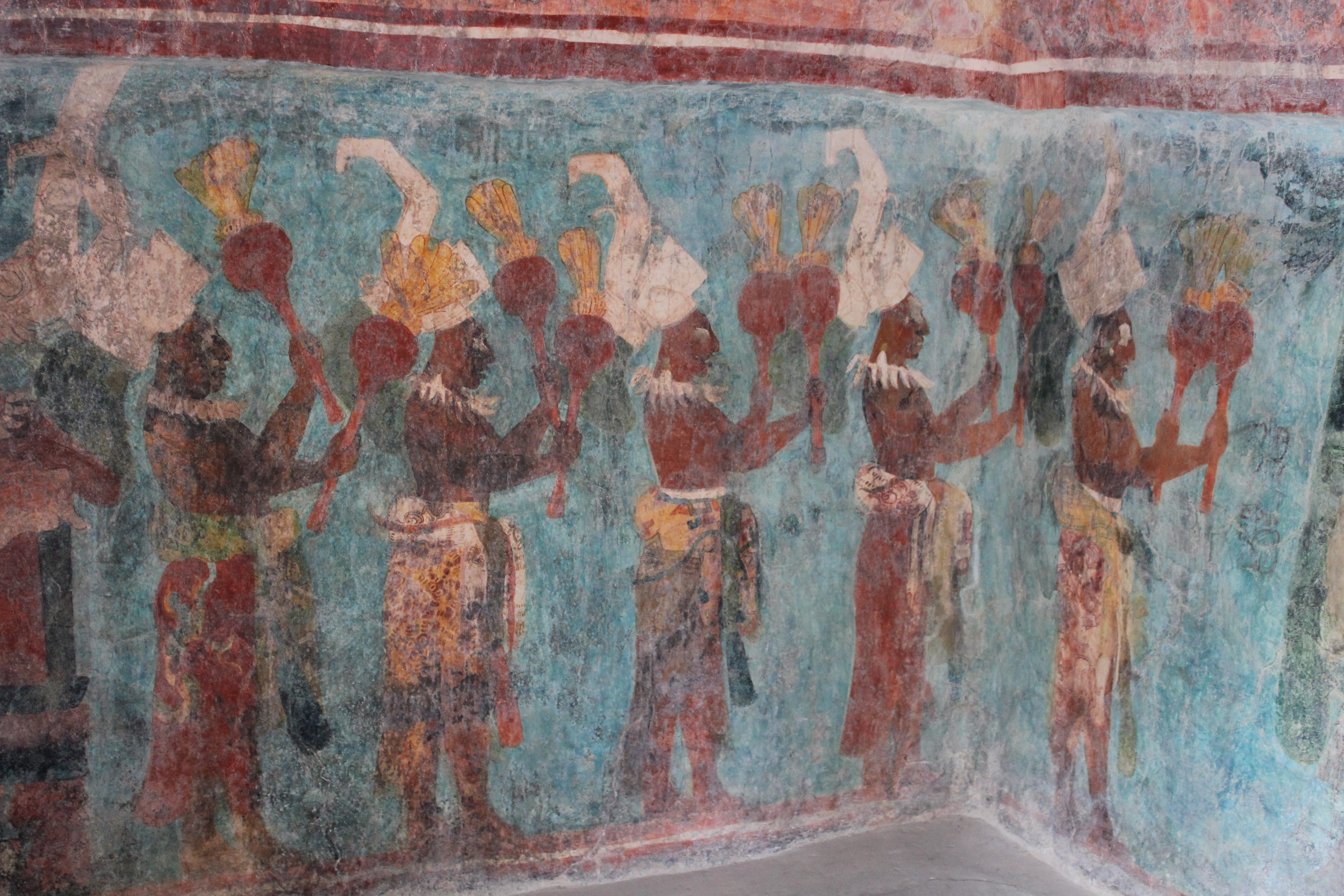 Bonampak, Temple of the Murals, room 1, musicians Bonampak is an ancient Maya archaeological site in the Mexican state of Chiapas. The site is approximately 30 km (19 mi) south of the larger site of Yaxchilan, under which Bonampak was a dependency, and the border with Guatemala. While the site is not overly impressive in terms of spatial or architectural size, it is well known for a number of murals, most especially those located within Structure 1 (The Temple of the Murals). The construction of the site’s structures dates to the Late Classic period (c. AD 580 to 800). In addition to being amongst the most well-preserved Maya murals, the Bonampak murals are noteworthy for debunking early assumptions that the Maya were a peaceful culture of mystics, as the murals clearly depict war and human sacrifice. What is often referred to as The Temple of the Murals (Structure 1) is a long narrow building with 3 rooms atop a low-stepped pyramid base. The interior walls preserve the finest examples of classic Maya painting, otherwise known only from pottery and occasional small faded fragments. Through a fortunate accident, rainwater seeped into the plaster of the roof in such a way as to cover the interior walls with a layer of slightly transparent calcium carbonate. The paintings date from 790 and were made as frescos, with no seams in the plaster indicating that each room was painted in a single session during the short time that the plaster was moist. They show the hand of a master artist with a couple of competent assistants. The three rooms show a series of actual events with great realism. (source